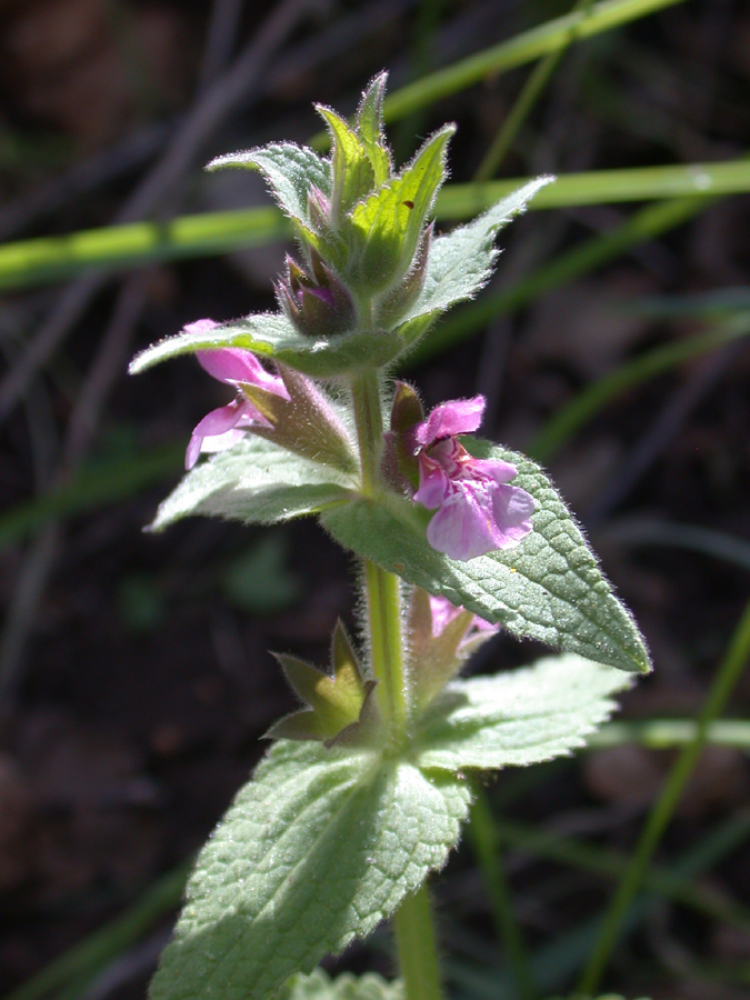 Stachys arabica Hornem. (אשבל ערבי), Mount Carmel, Israel, March 21, 2008